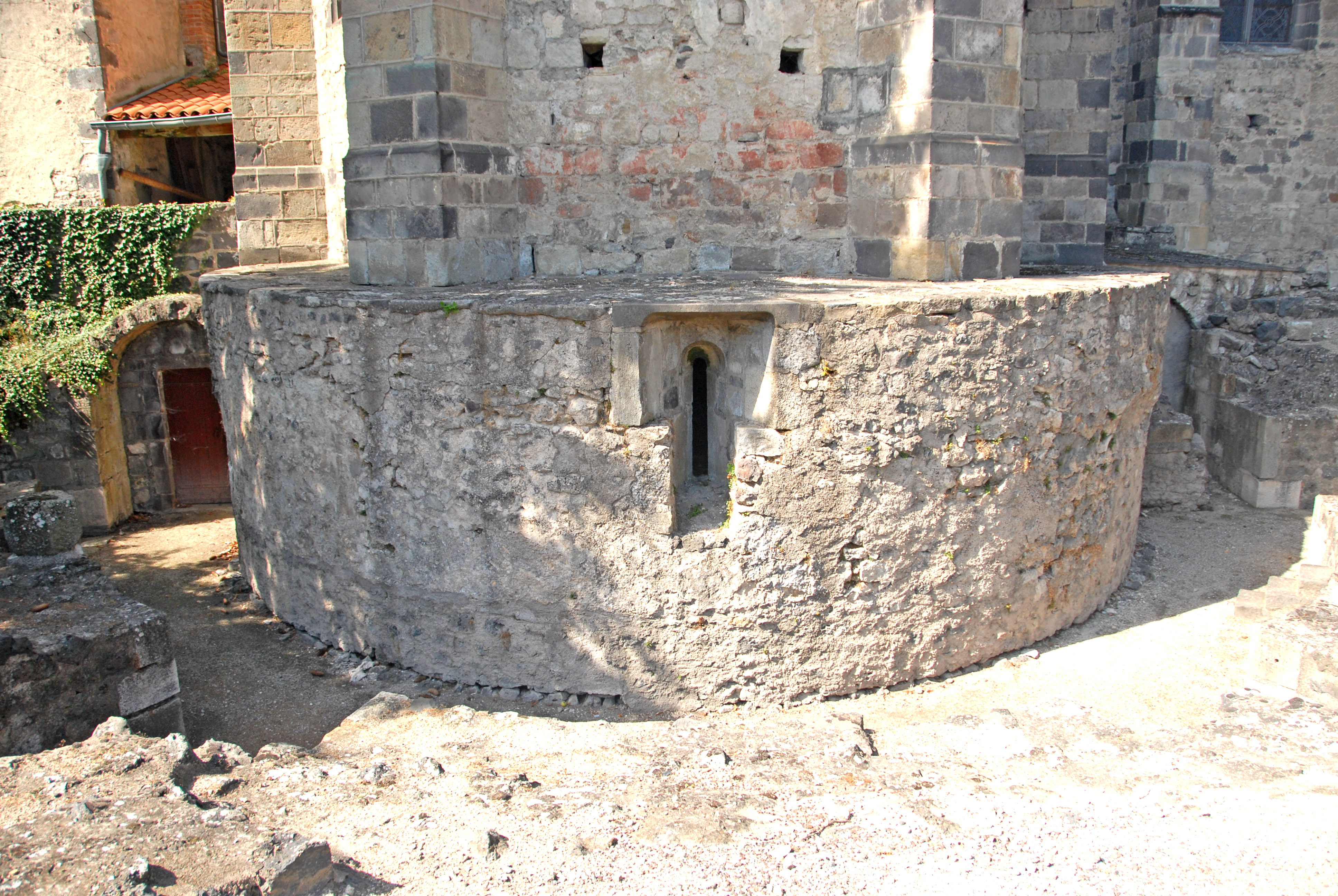 Crypt of Mozac Abbey